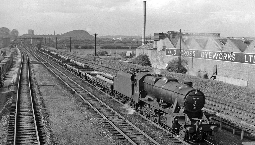 Up freight approaching Stapleford & Sandiacre Station. View NW from A52 bridge towards Chesterfield, on the Erewash Valley main line, the ex-Midland north-south trunk route. The colliery waste tip in the distance was at Stanton Gate.